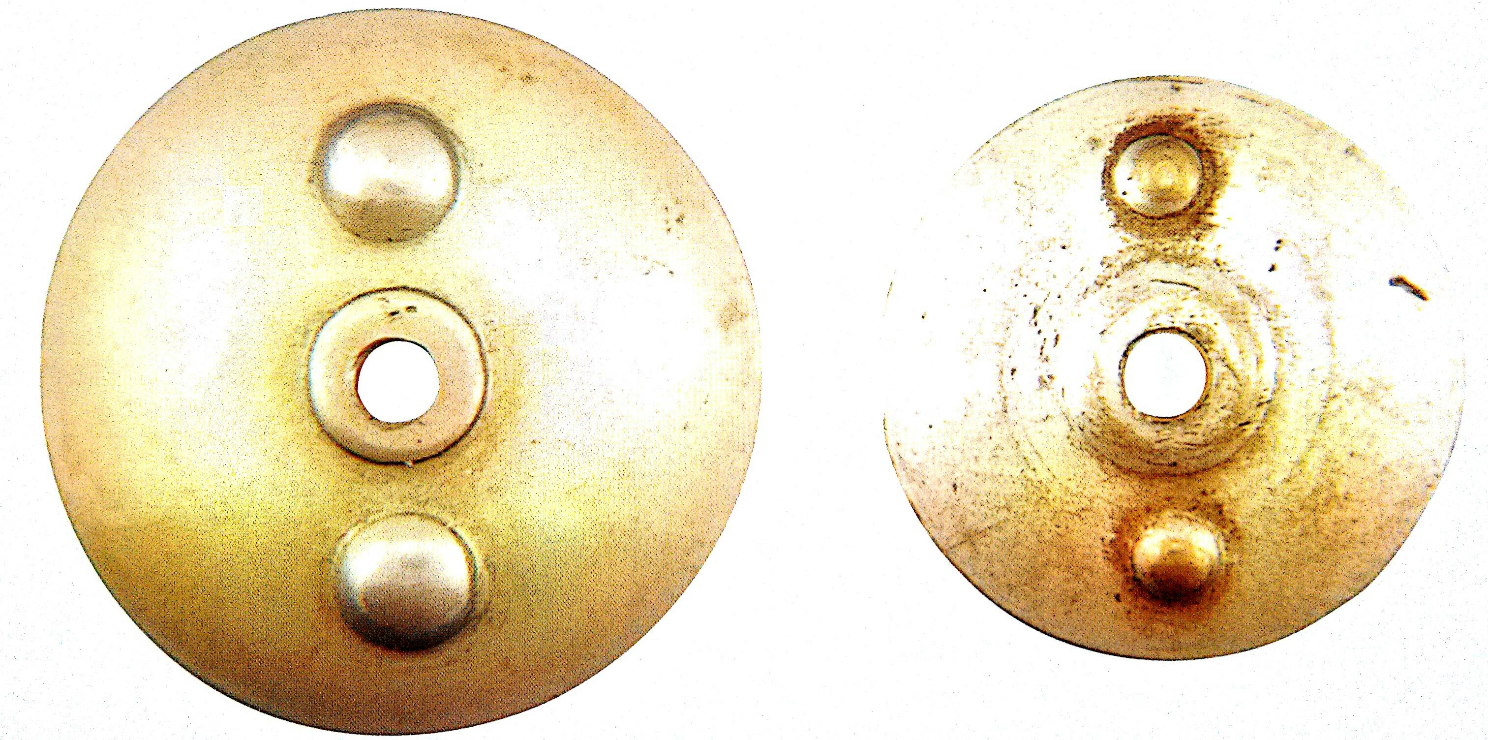 Order of the National Flag Screw plate, Right one is North Korean made, and Left one is Soviet made plate(Same variation with Soviet order 'Patriotic War').